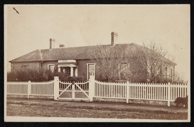 Goulburn Hospital founded in 1849 2005.0005.0123.008